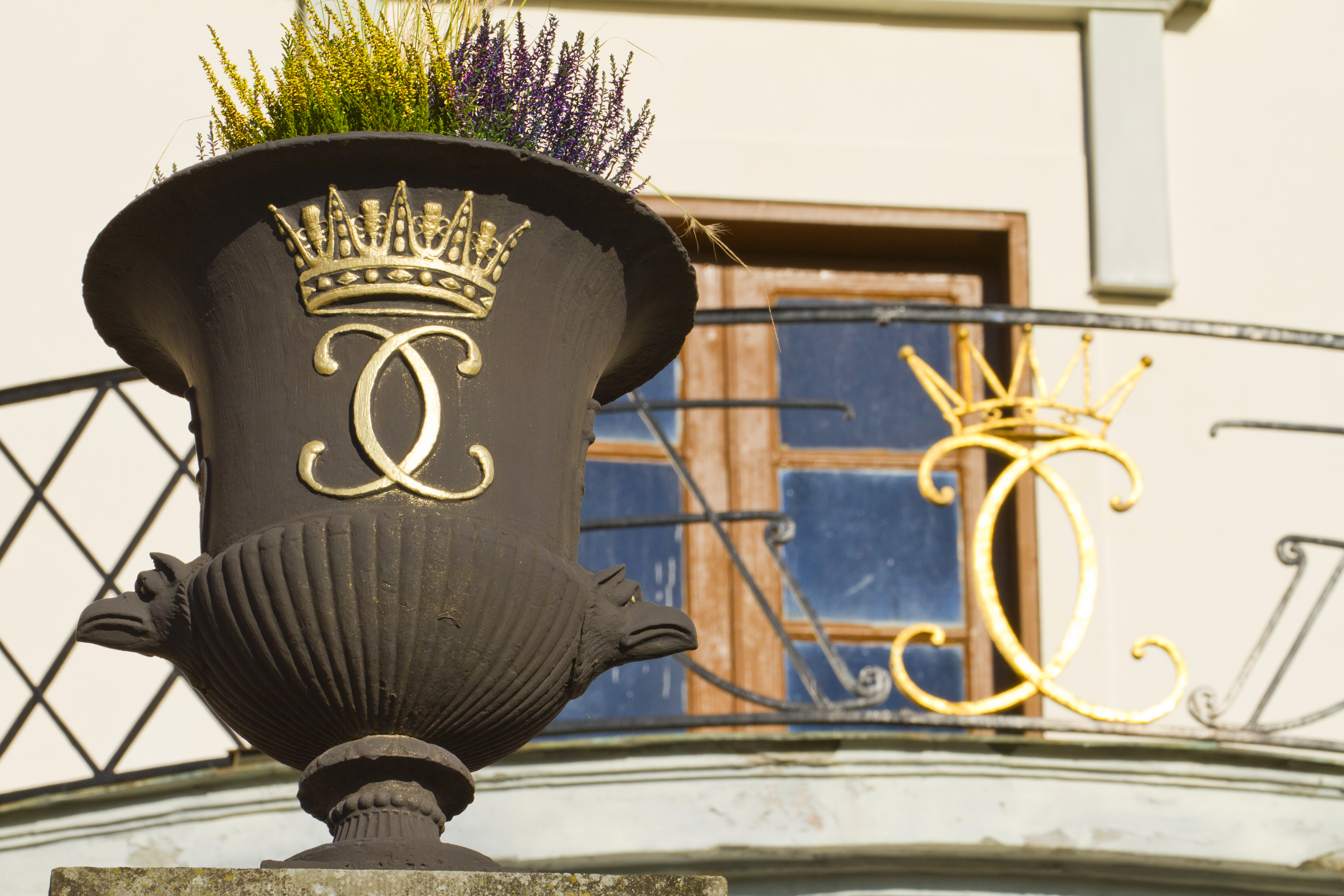 Royal flower pots at Rosersberg Palace, Sigtuna Municipality, Sweden